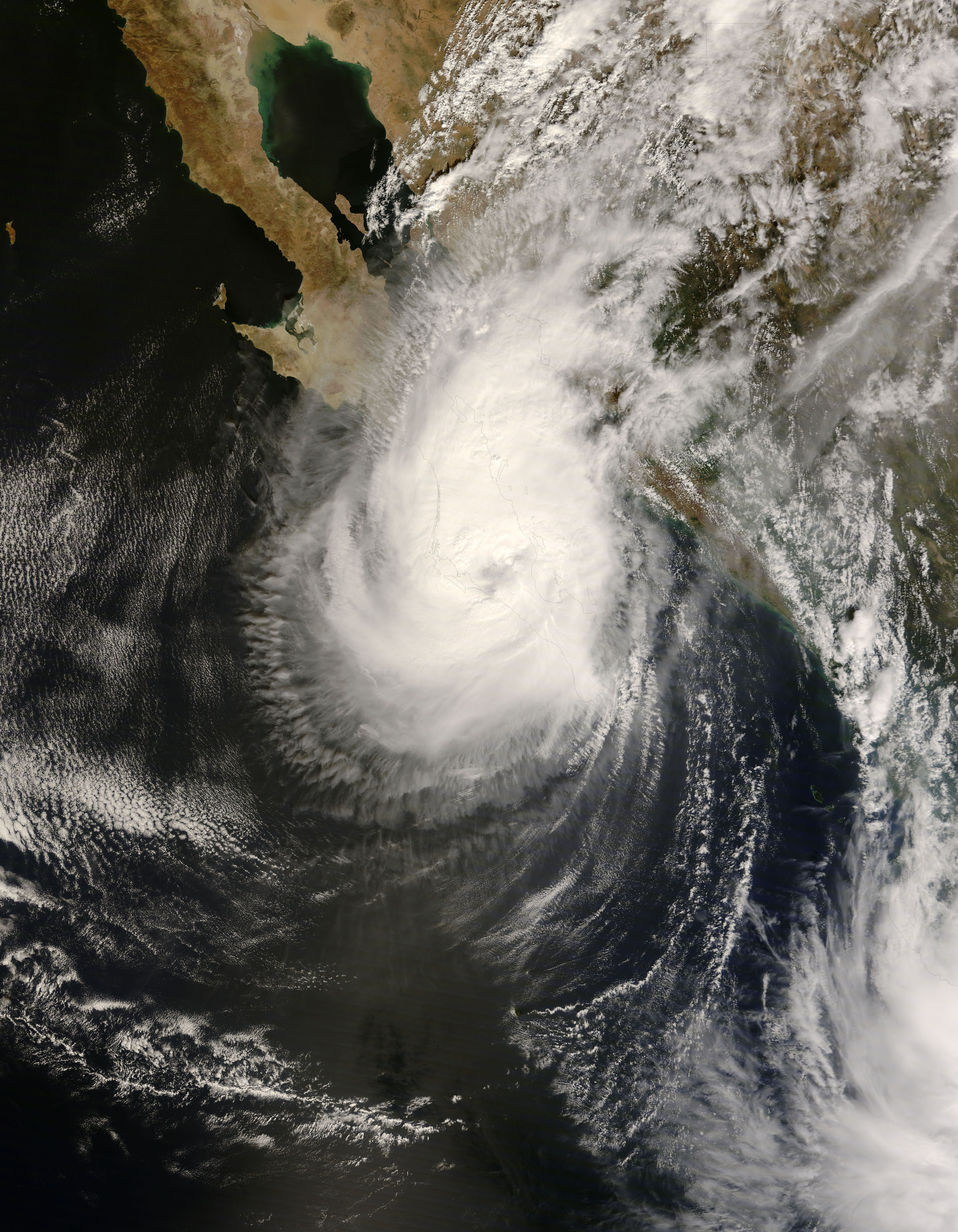 Hurricane Norbert (2008) as seen from Terra Satellite on 2008-10-11